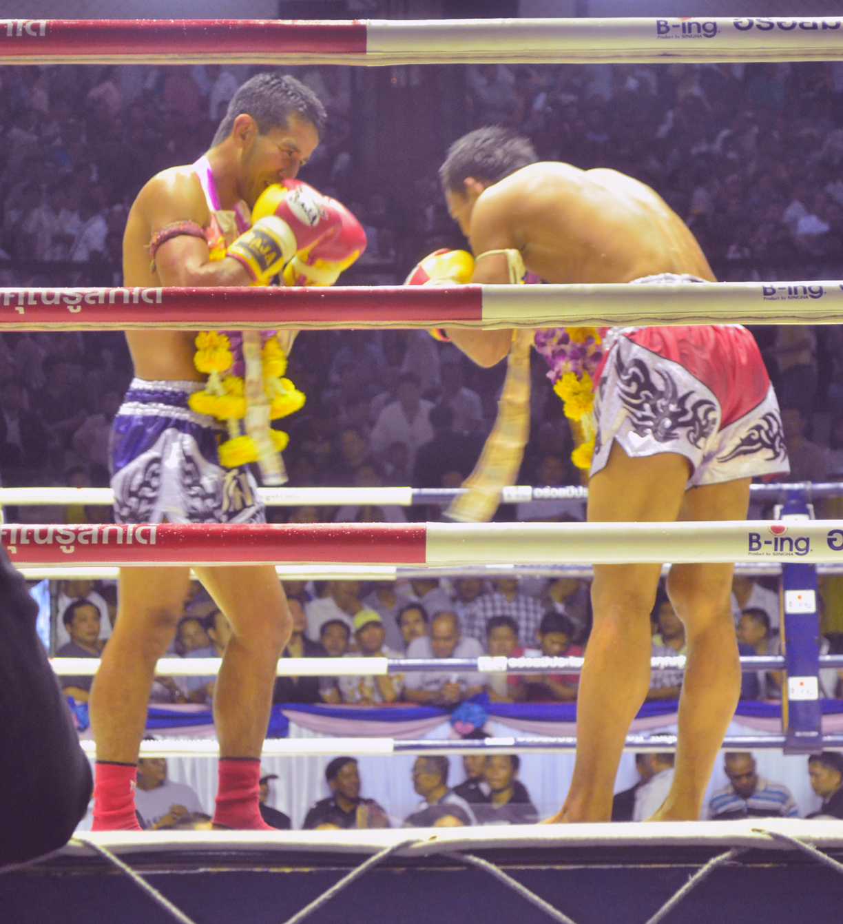 Pettawee & Seksan